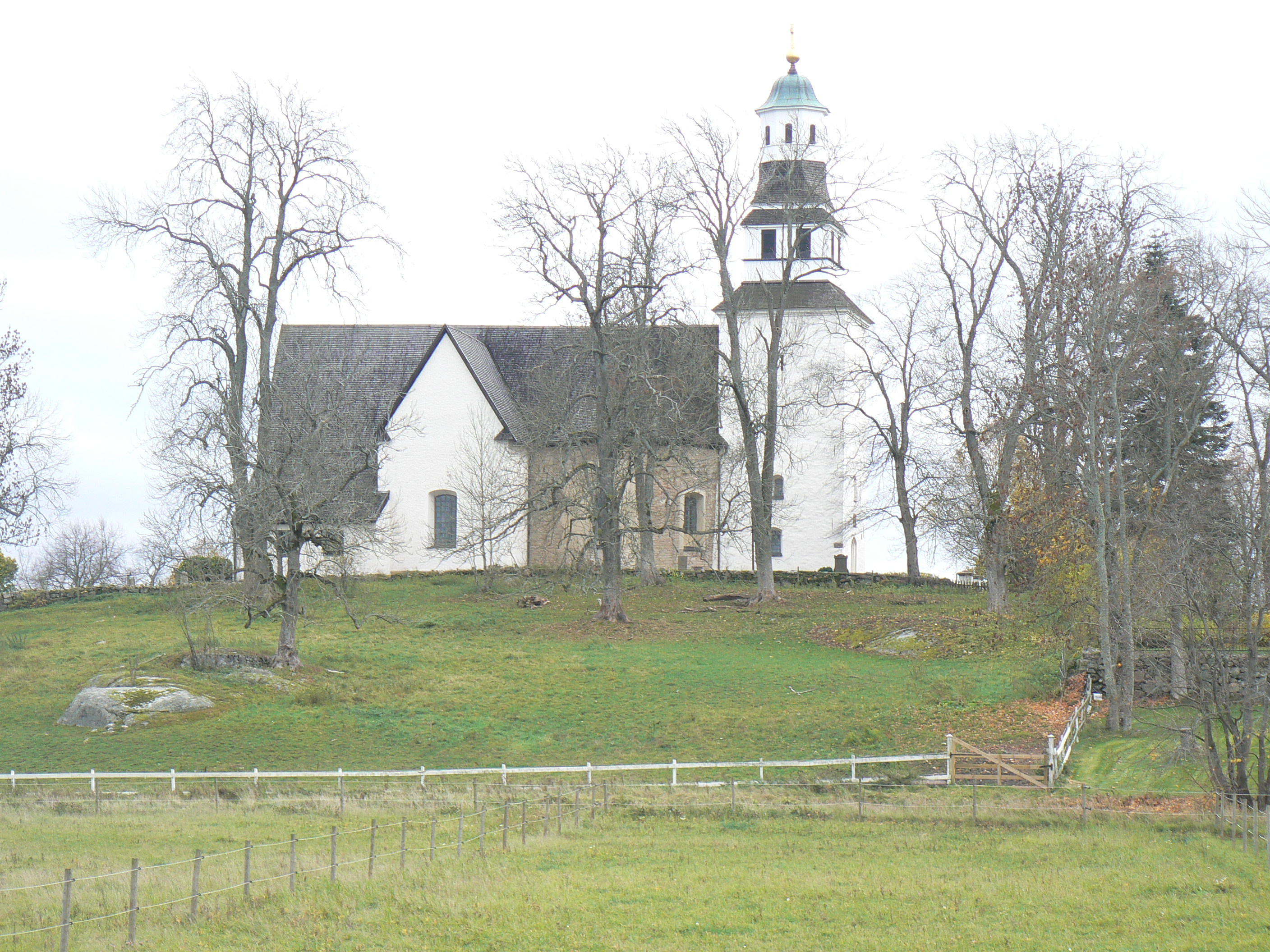 Vårdsberg Church, west of Linköping in Östergötland, Sweden.